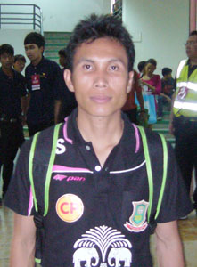 Tatree Sing-Ha